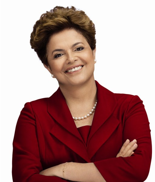 Dilma Rousseff